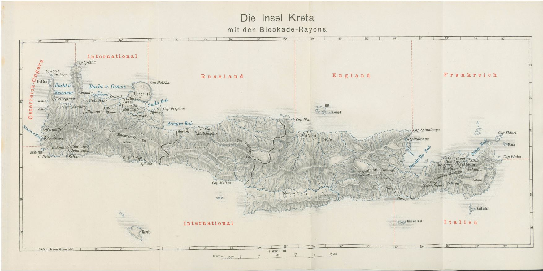 Austro-Hungarian map of the International Squadron′s zones of blockading responsibilities around Crete in 1897.